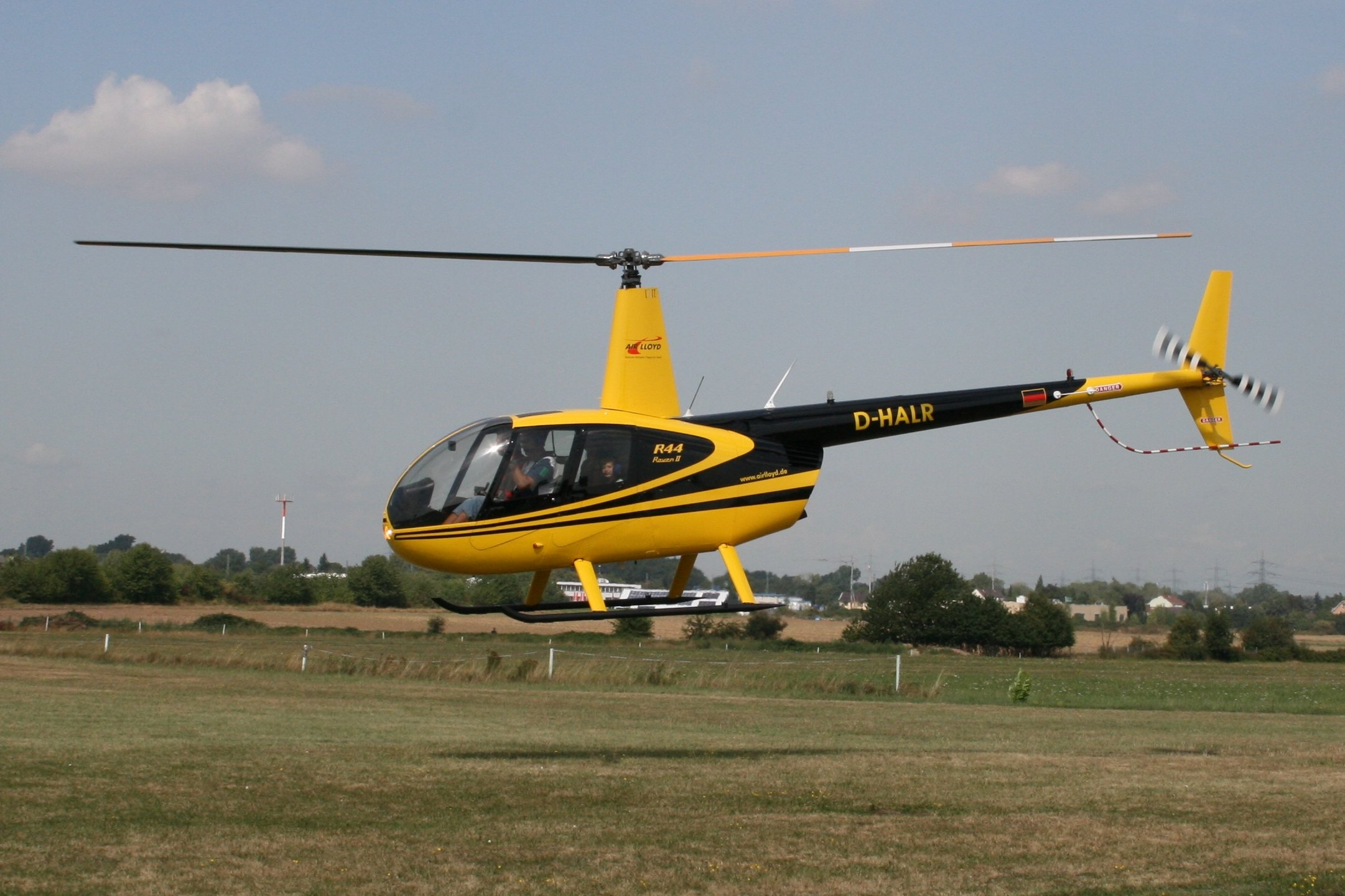 helicopter Robinson R44 near german airfield Bonn-Hangelar